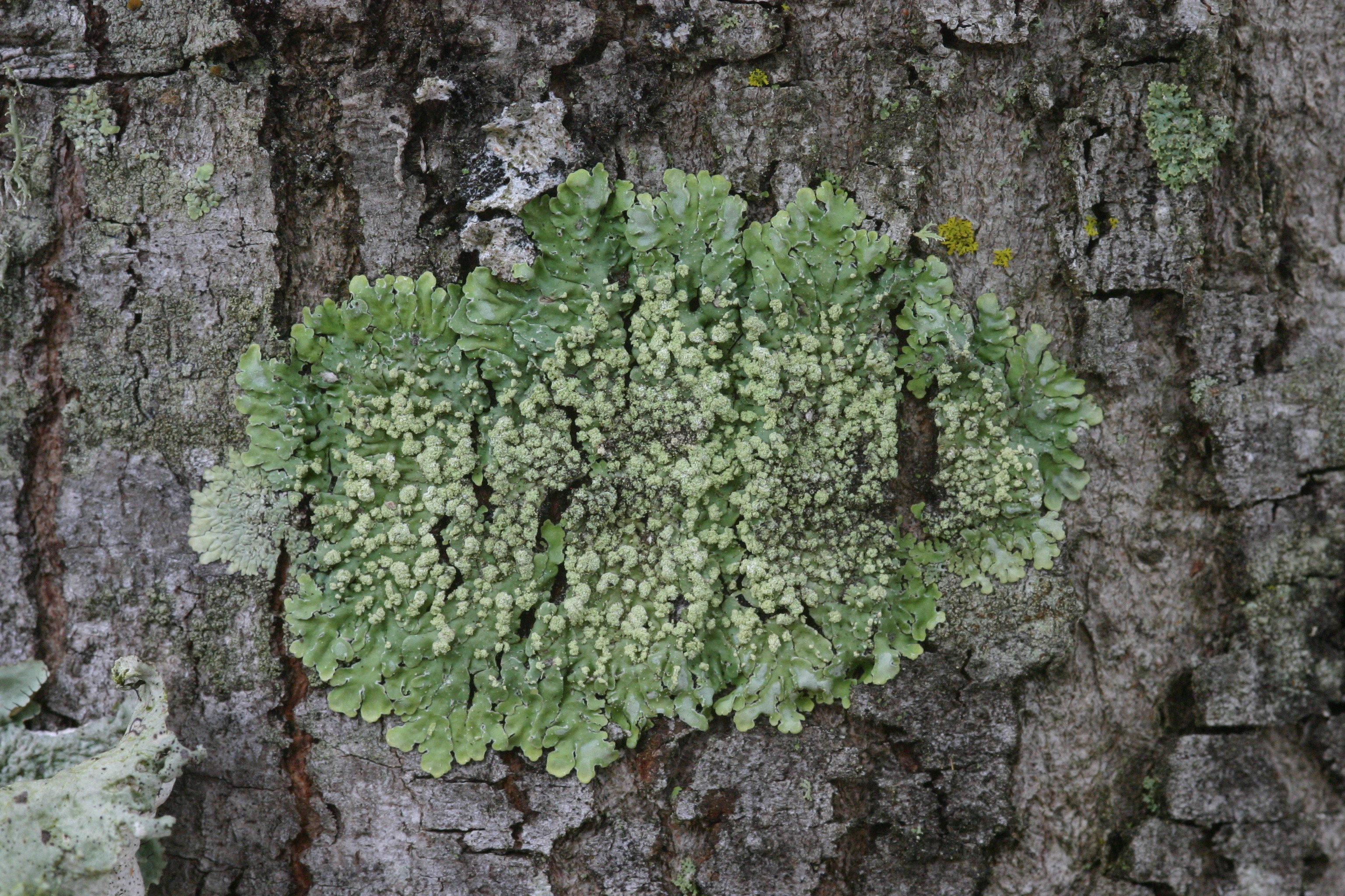 The lichen species Dirinaria picta (Sw.) Clem. & Shear. Specimen photographed in Hoover Sport Park East, Hoover, Jefferson Co., Alabama.